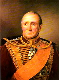 Hans Ernst Karl, Graf von Zieten (1770-1848) was a General in the Prussian Army during the Napoleonic Wars